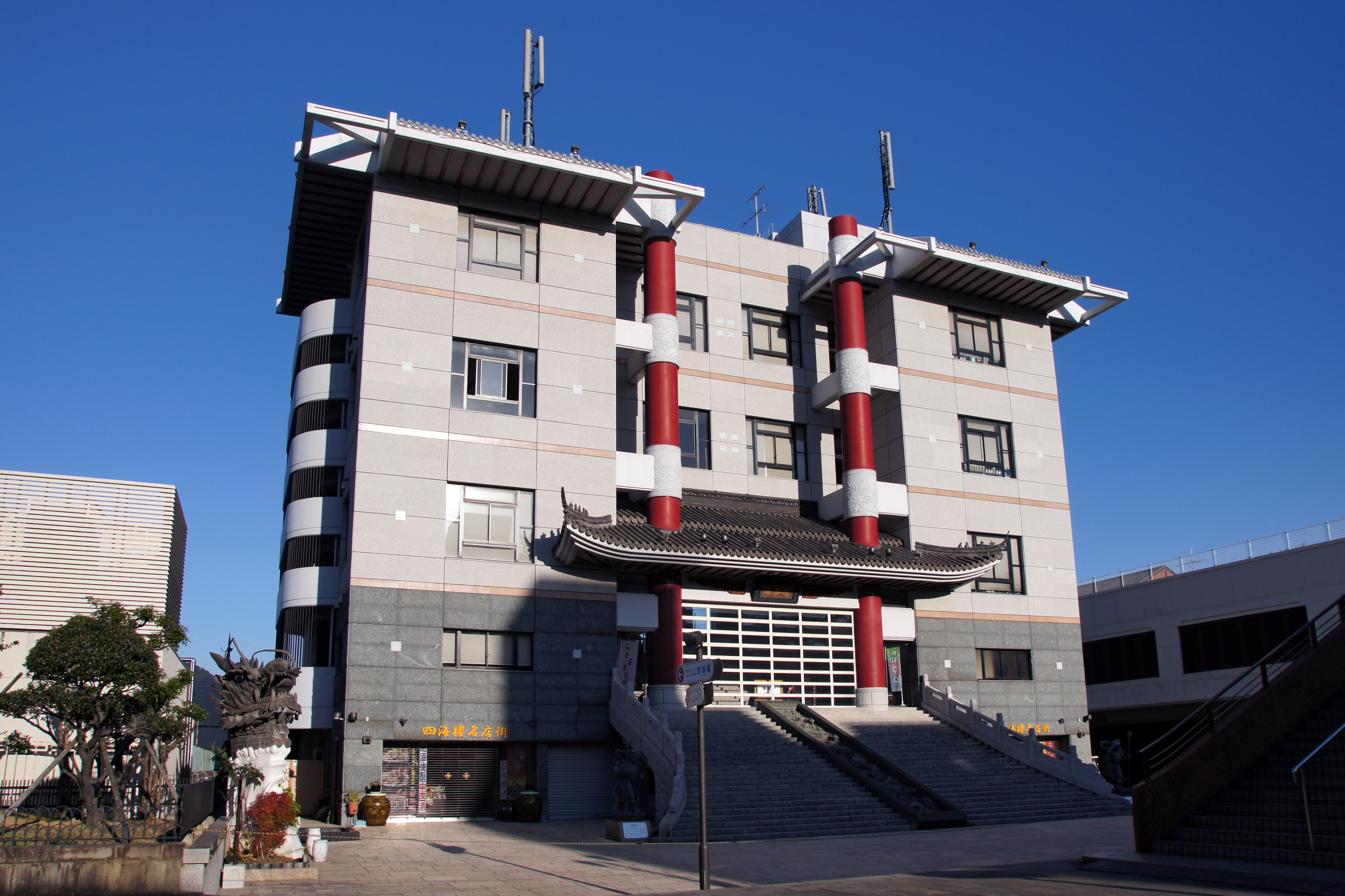 Chinese restaurant "Shikairo" in Nagasaki, Nagasaki prefecture, Japan